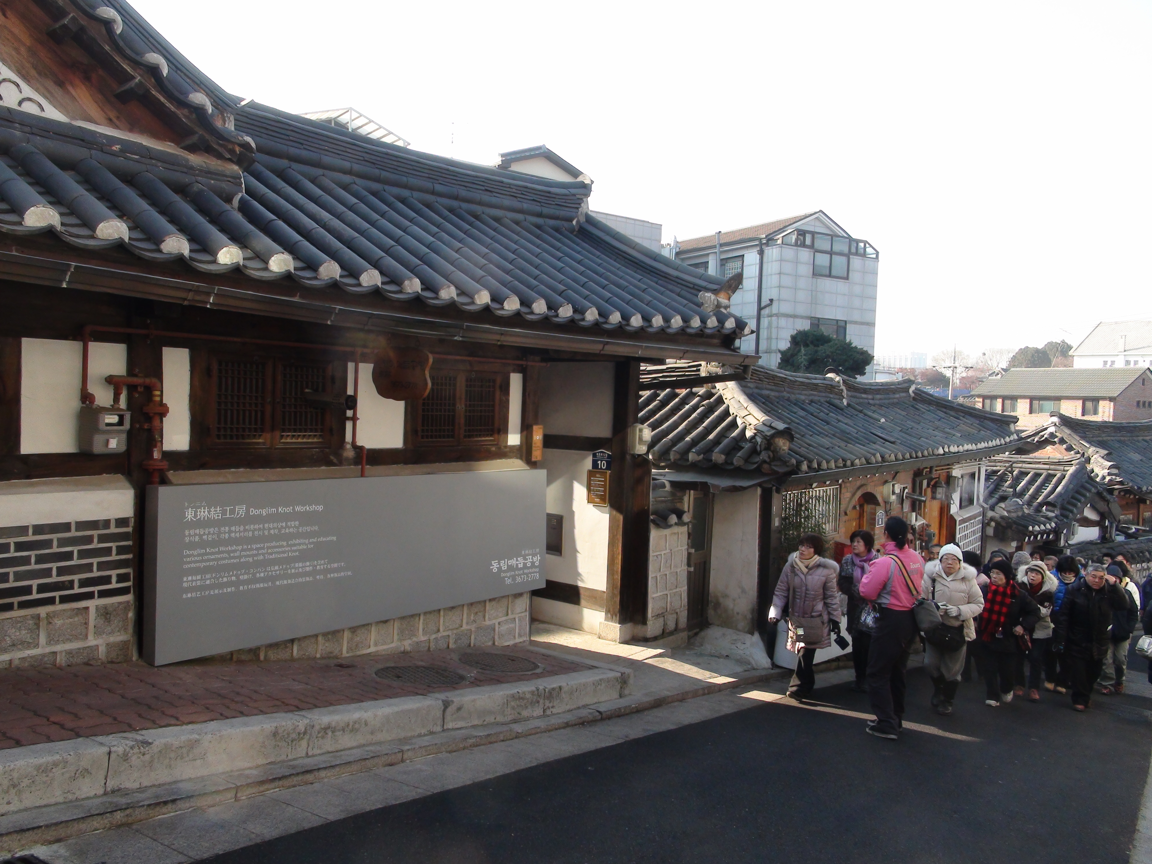 Area east of Bukchon Hanok Village in Seoul